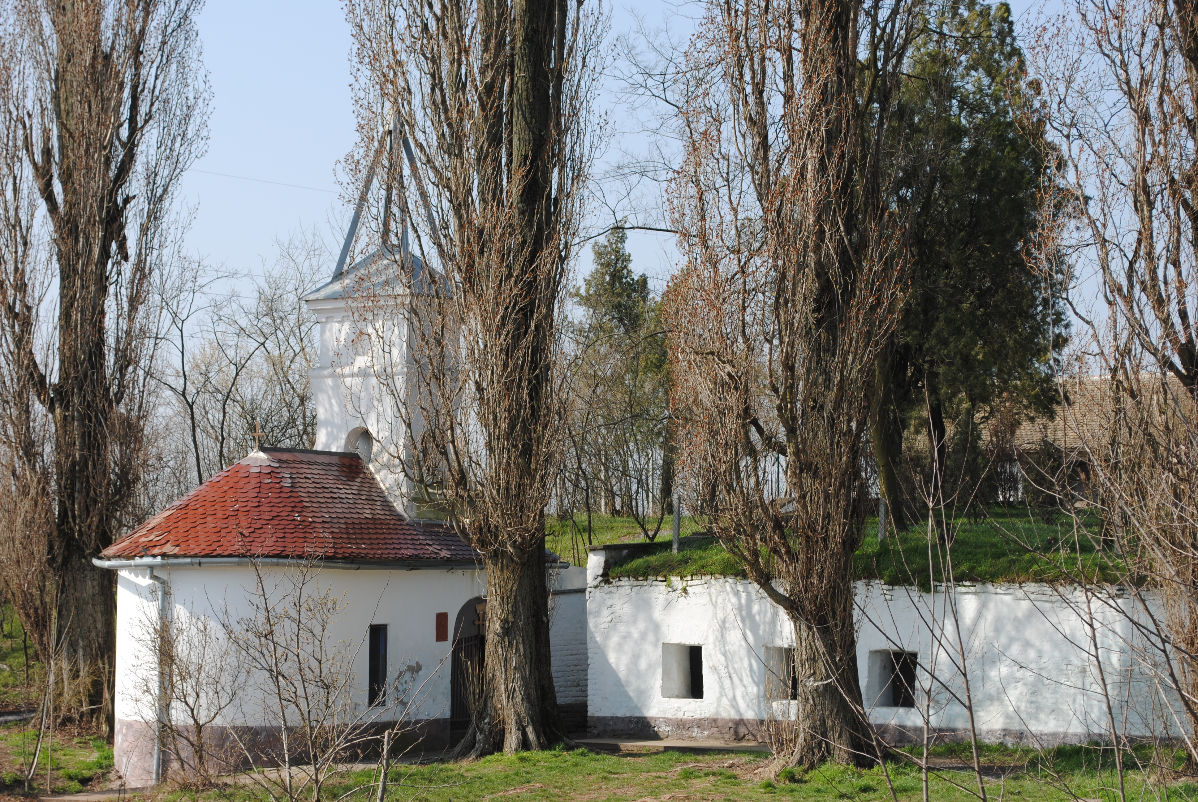 Cultural heritage site of Serbia (SK 1105). This small church with the well inside of it was built in 1865. Srpski (latinica): Crkva Vodice posvećena je Velikomučenici Marini. Spomenik je kulture od velikog značaja (SK 1105). Crkva je izgrađena 1865 godine.